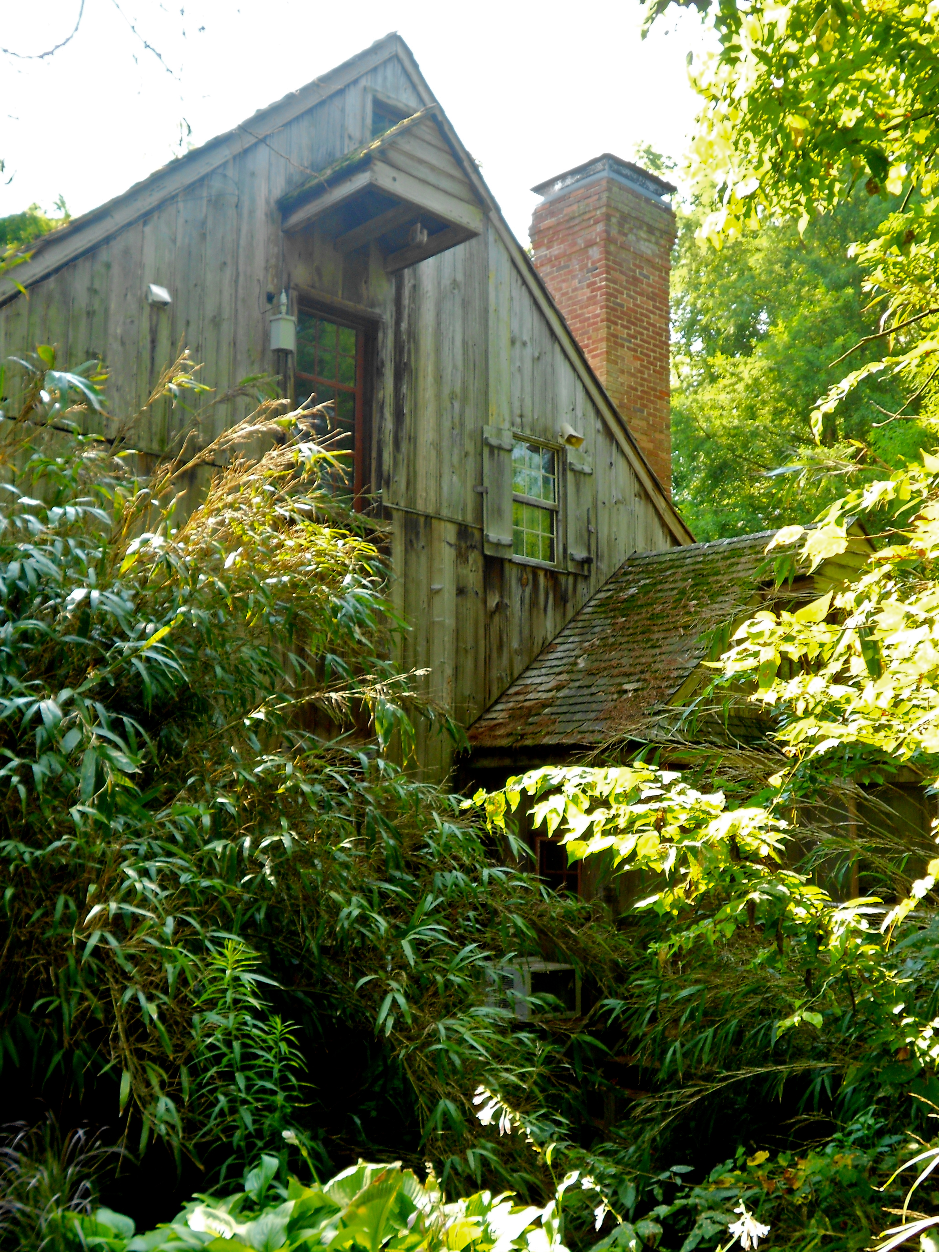 Jeremiah Brown House and Mill Site on the NRHP since November 2, 1987 at 1416 Telegraph Rd. in the Plumpton Park Zoo near Rising Sun, Cecil County, Maryland. The mill is apparently used as an office, but overall is in terrible shape, especially the roof.